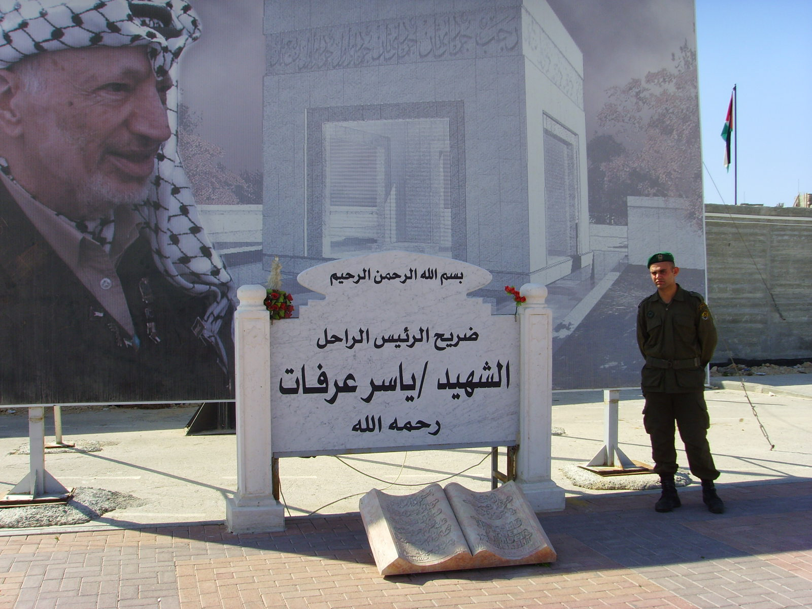 The tomb of Yasser Arafat in Ramallah/West Bank. Behind this huge poster a monument for Arafat is being built.